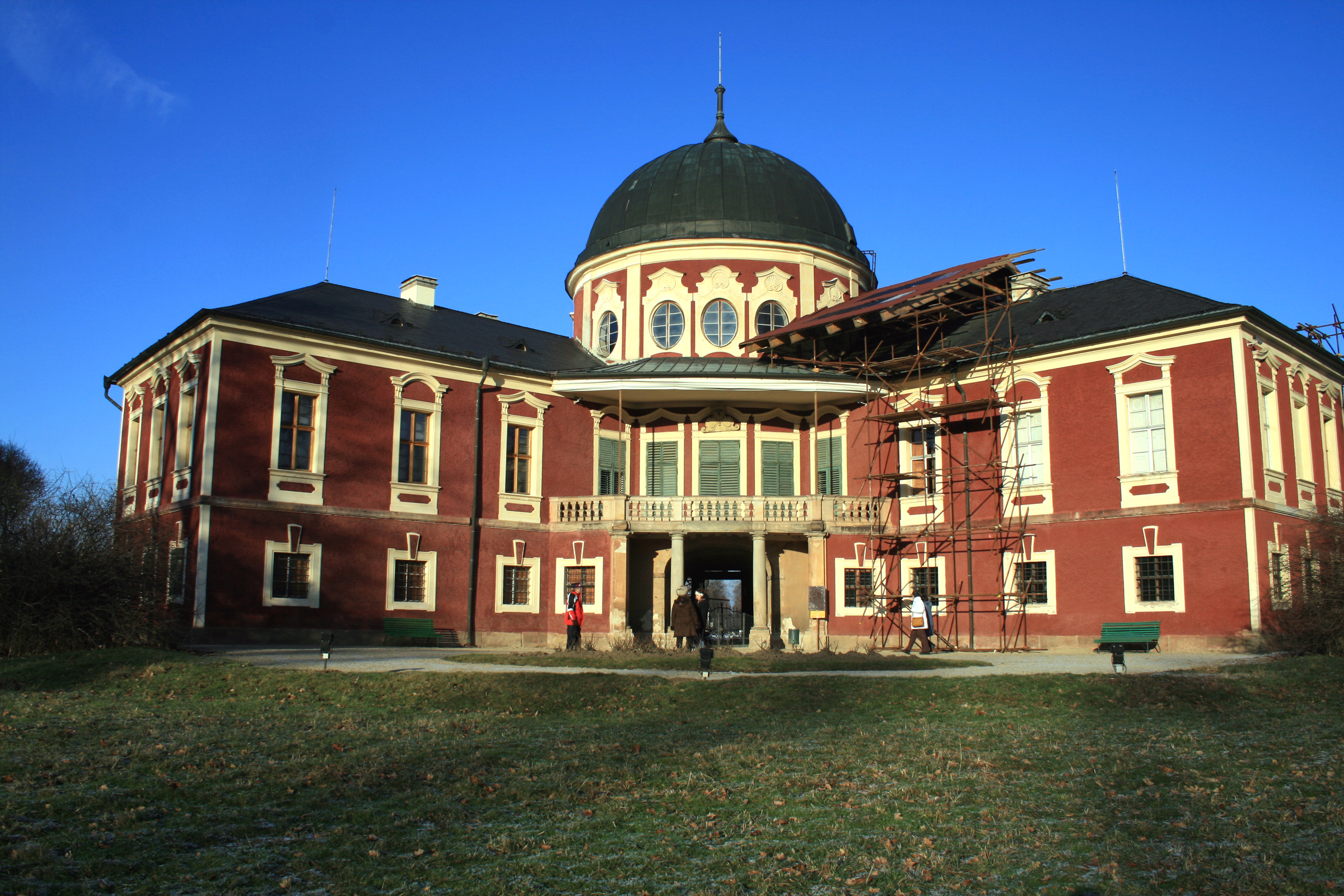 Veltrusy Château, Mělník District, Czech Republic